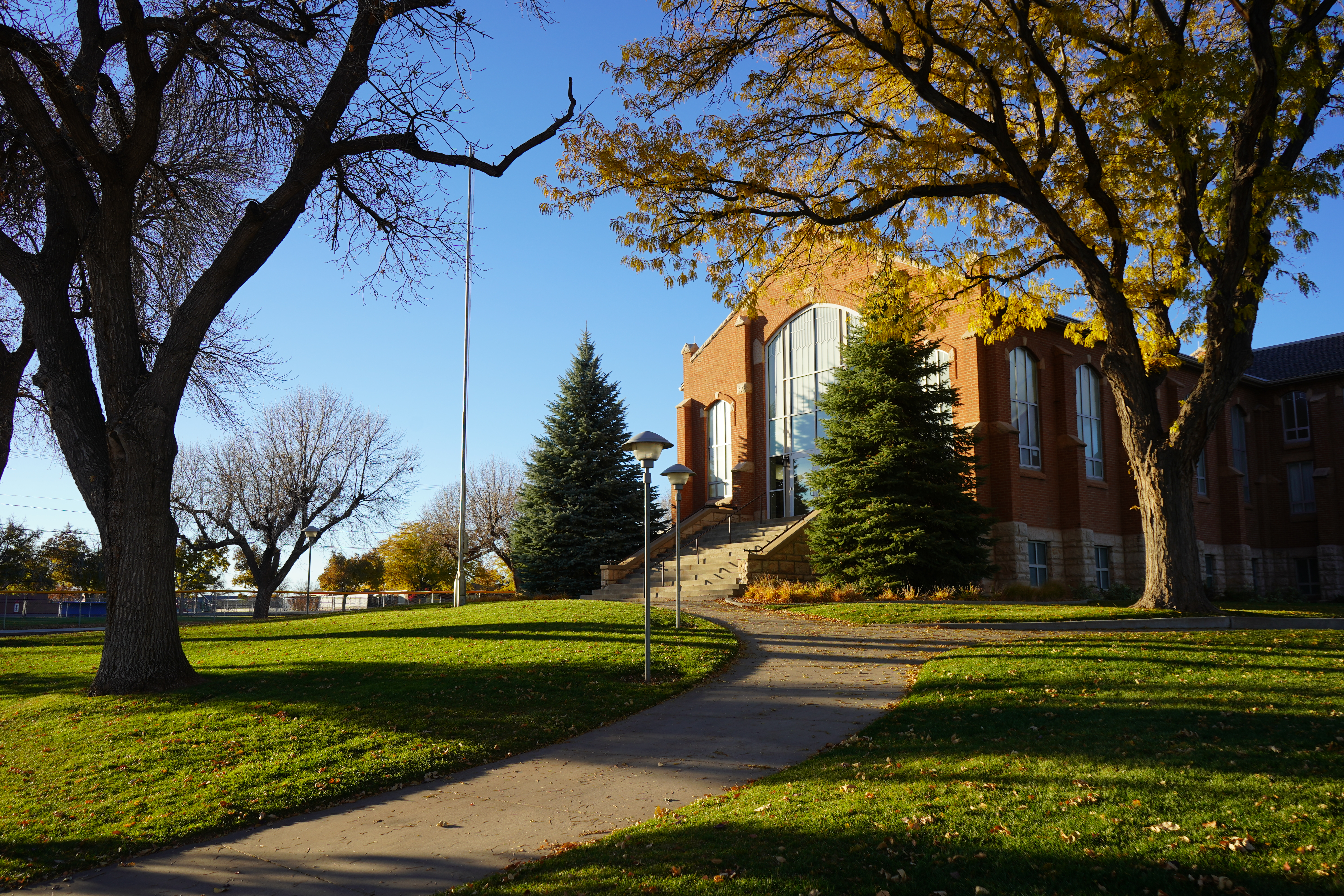 The building is a meetinghouse of the Mormon Church (aka "LDS Church"). The building is also known among local residents as the "Blanding Stake Tabernacle" and the "Blanding South Chapel". Recently renovated in 2015-03.